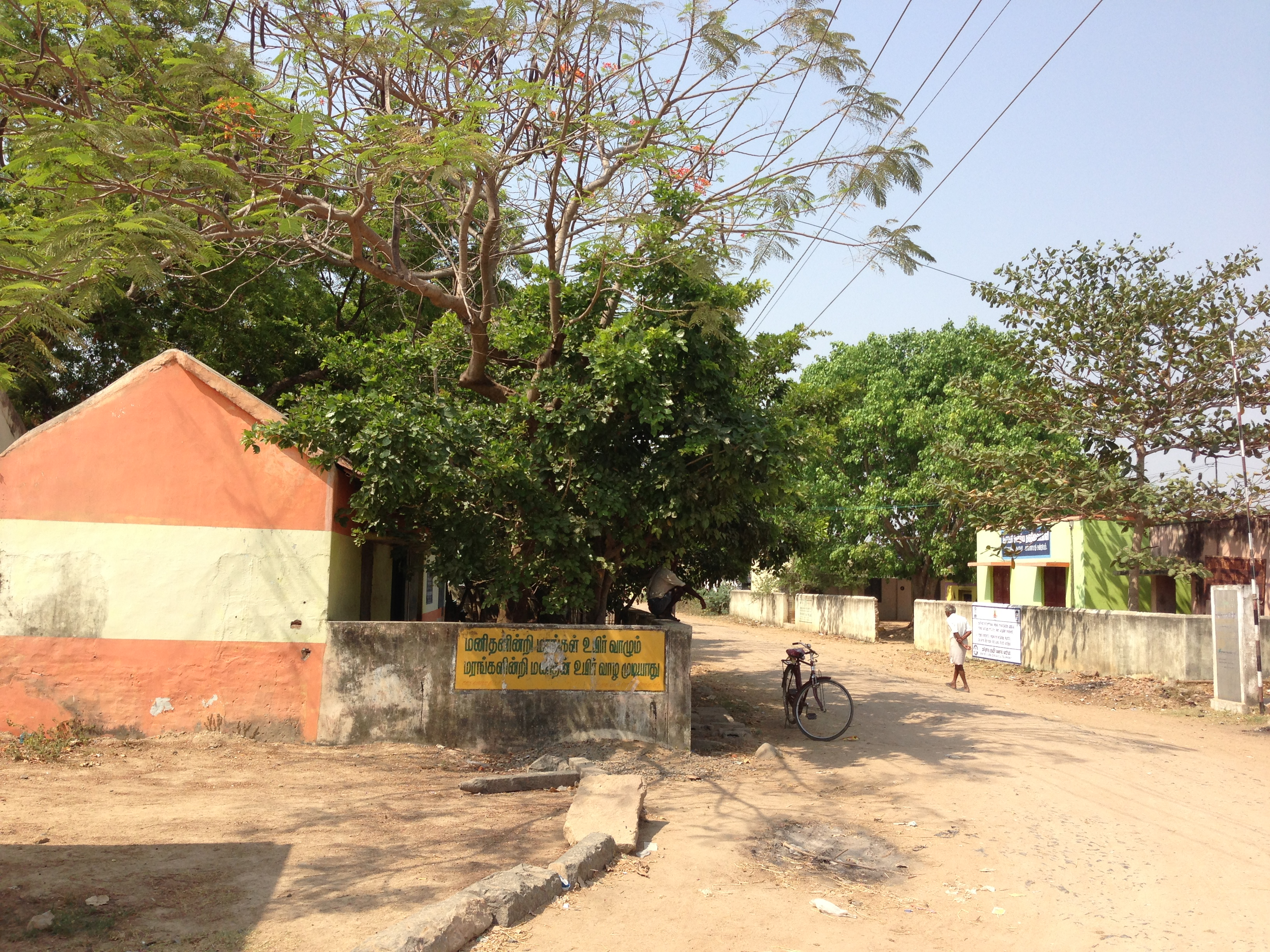 Nathanallur Panchayat Union Middle School established by 1923.